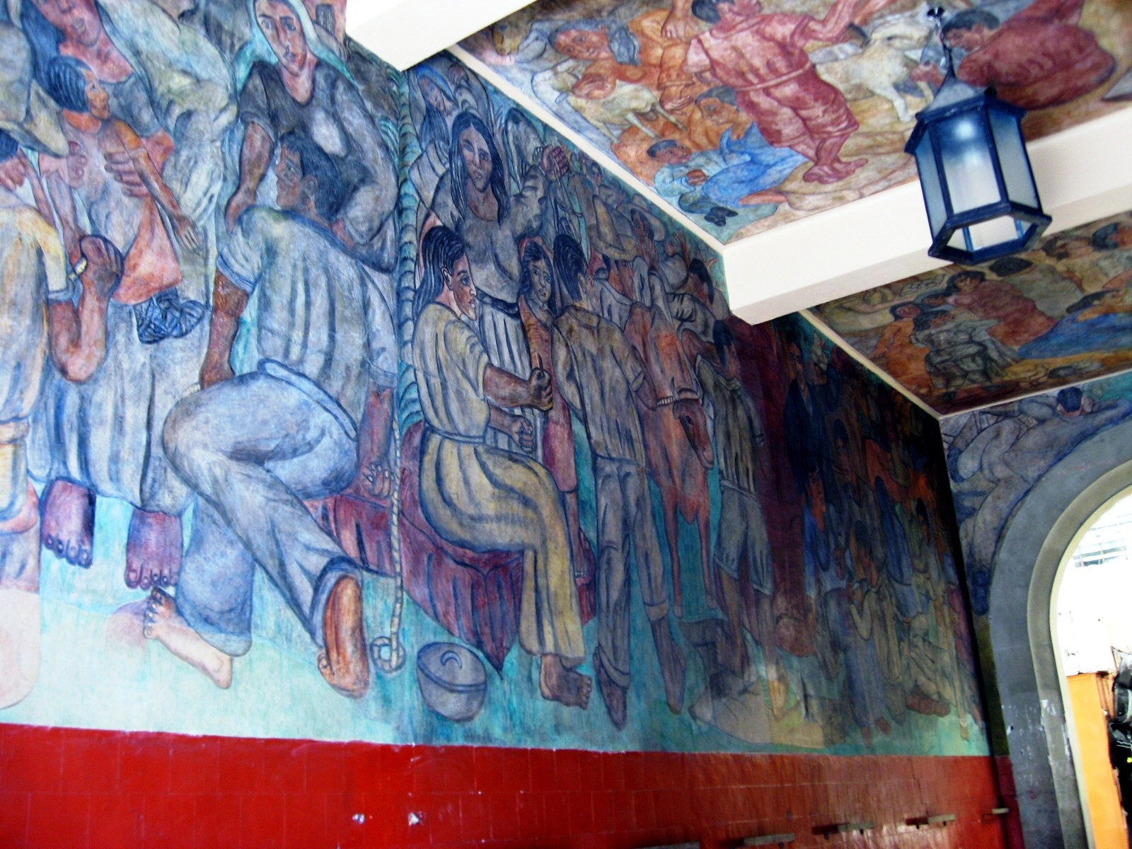 One side of hallway entrance with mural painted by Pedro Rendón at the Abelard Rodriguez Market, location in the historic center of Mexico City